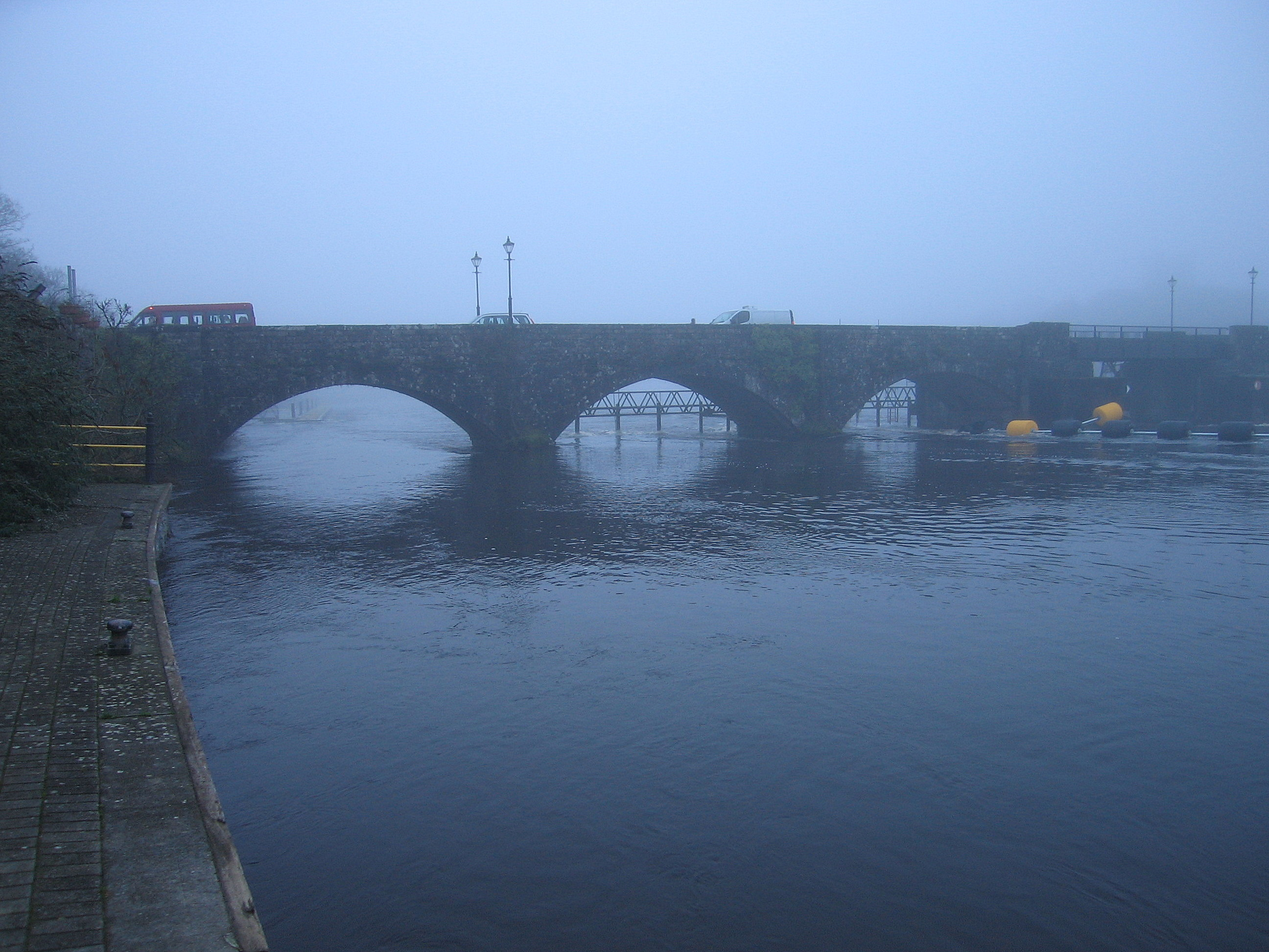 Bridge between Ballina and Killaloe This bridge crosses the River Shannon and joins the towns of Ballina, County Tipperary and Killaloe, County Clare.